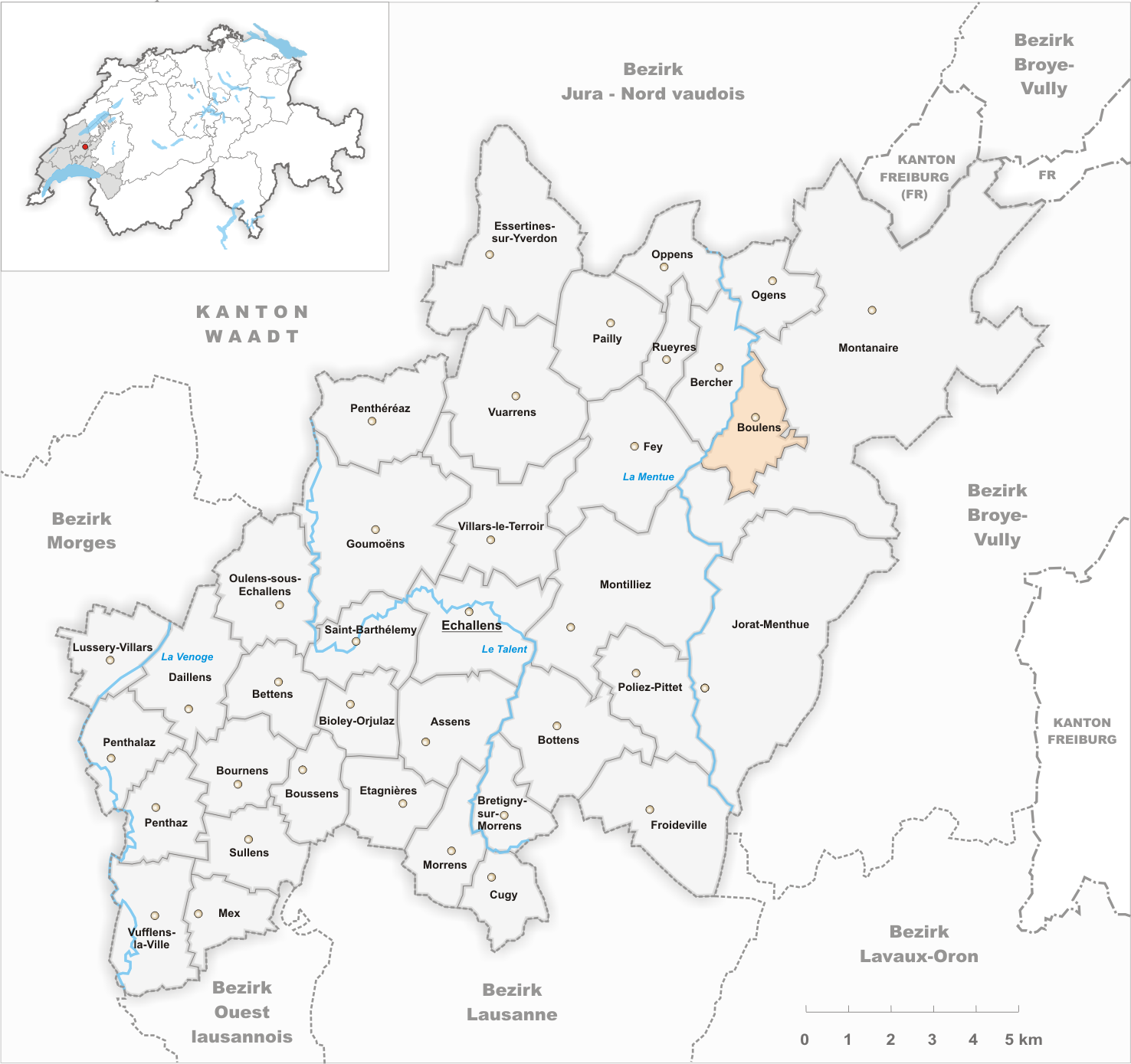 Municipality Boulens